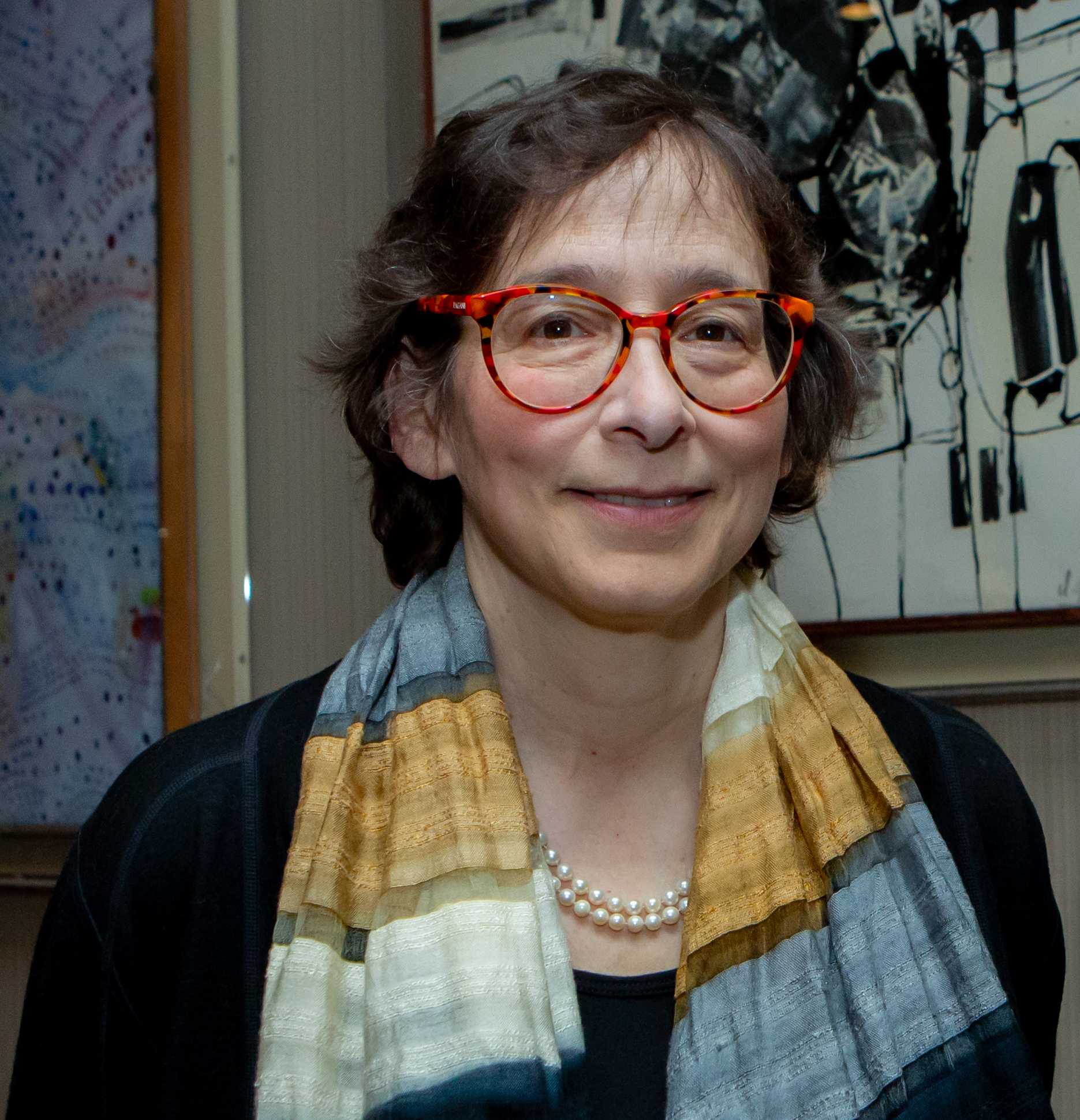 Pamela Karlan and Danielle Allen at the Edmond J. Safra Center for Ethics.